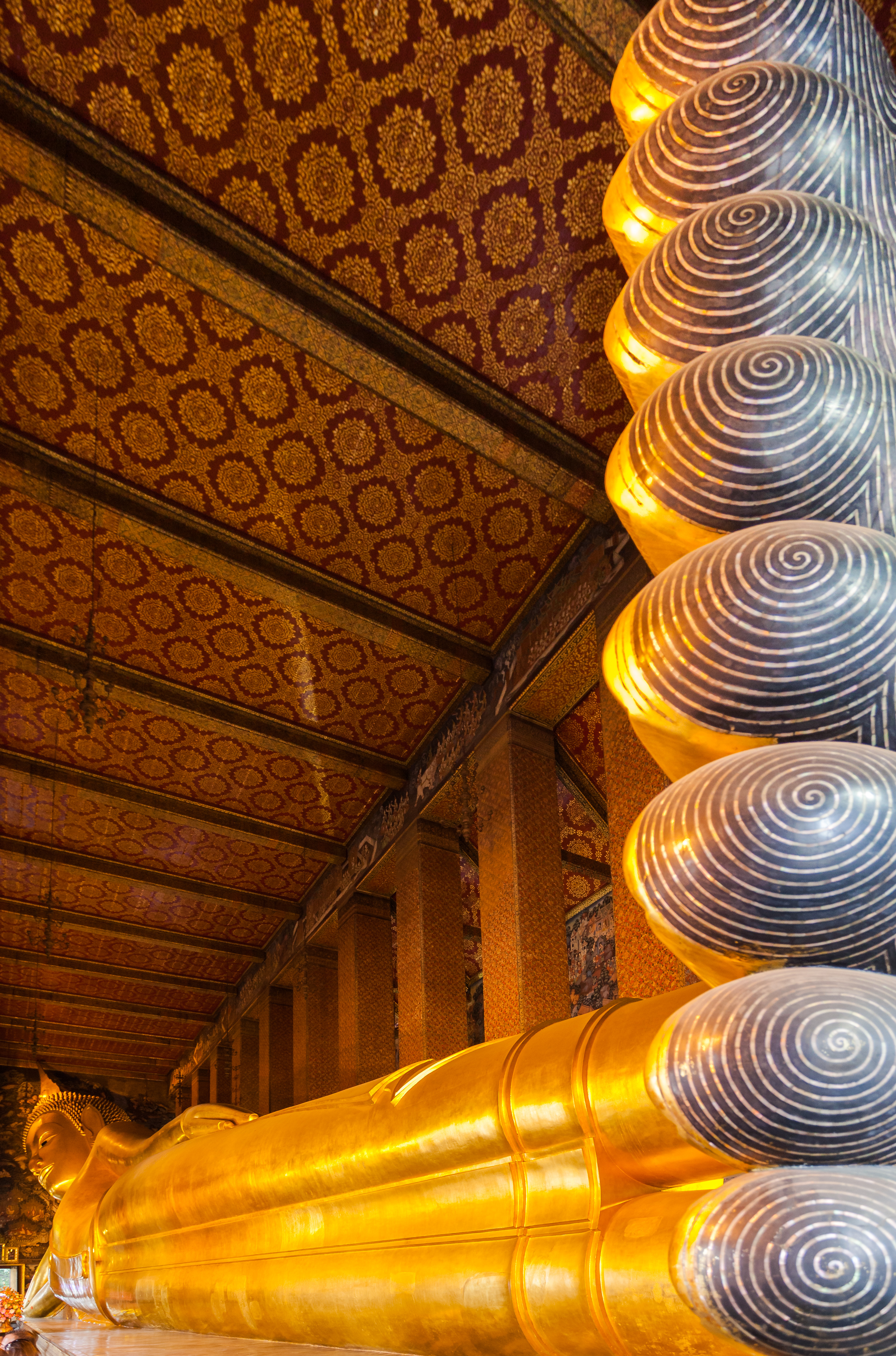 Reclining Buddha statue, Wat Pho, Bangkok, Thailand